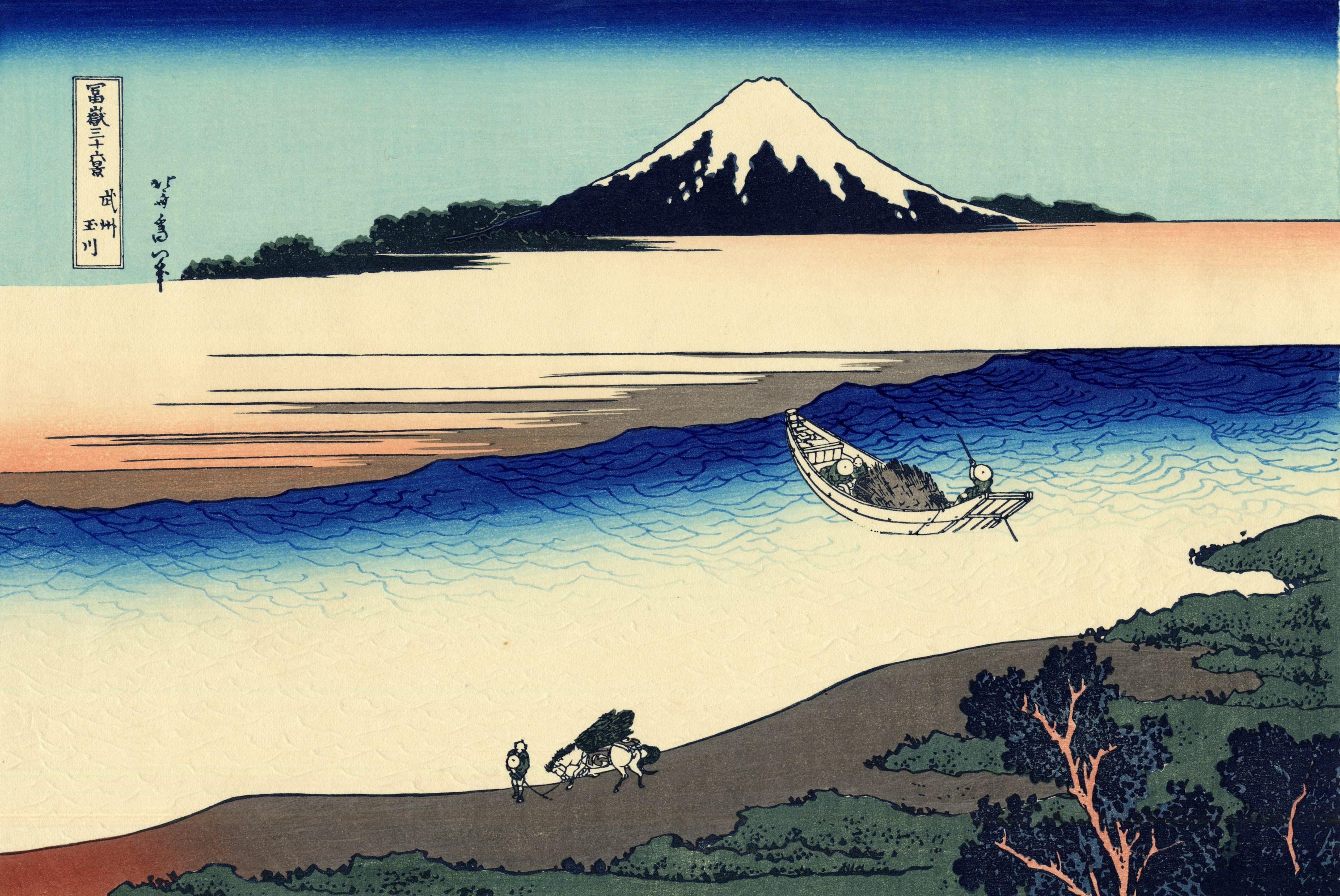 Part of the series Thirty-six Views of Mount Fuji, no. 22. （武蔵国多摩川）